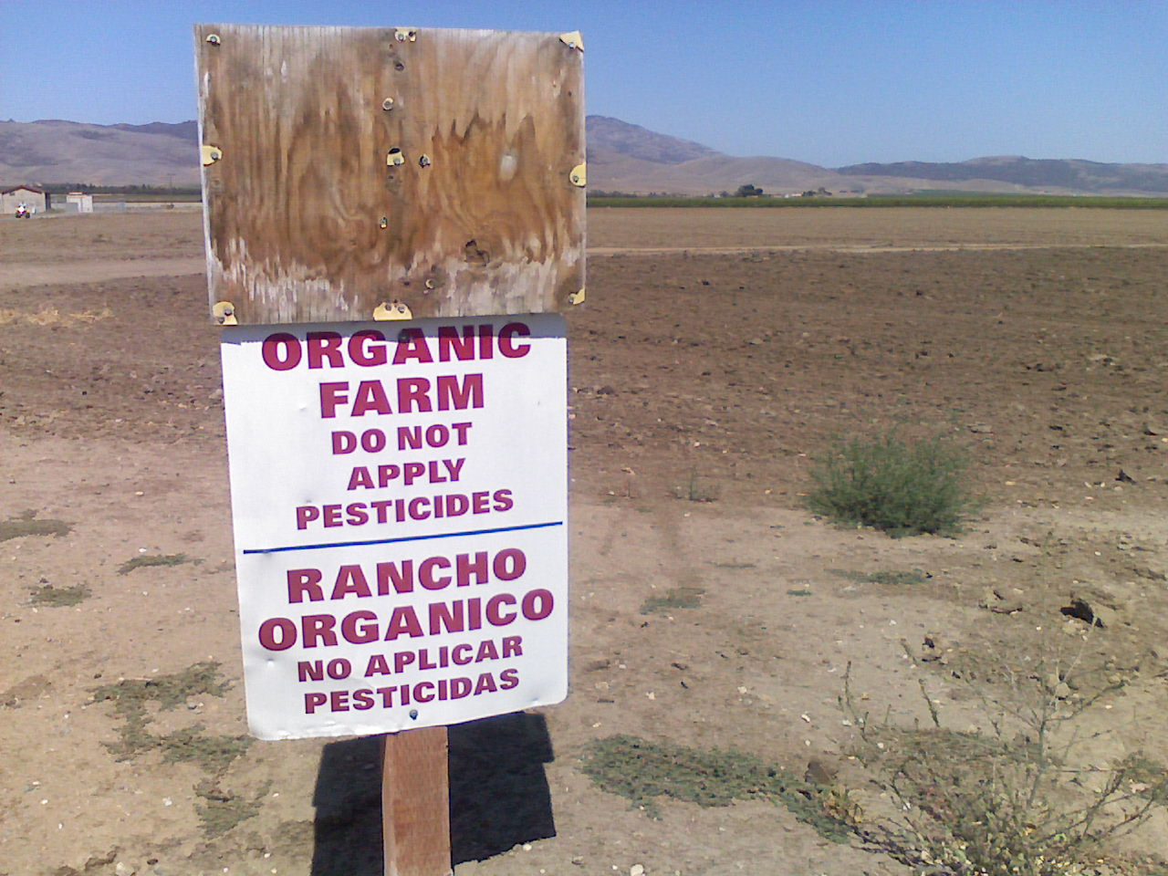 This picture of organic farmland on the outskirts of Soledad, CA was taken July 8, 2007.